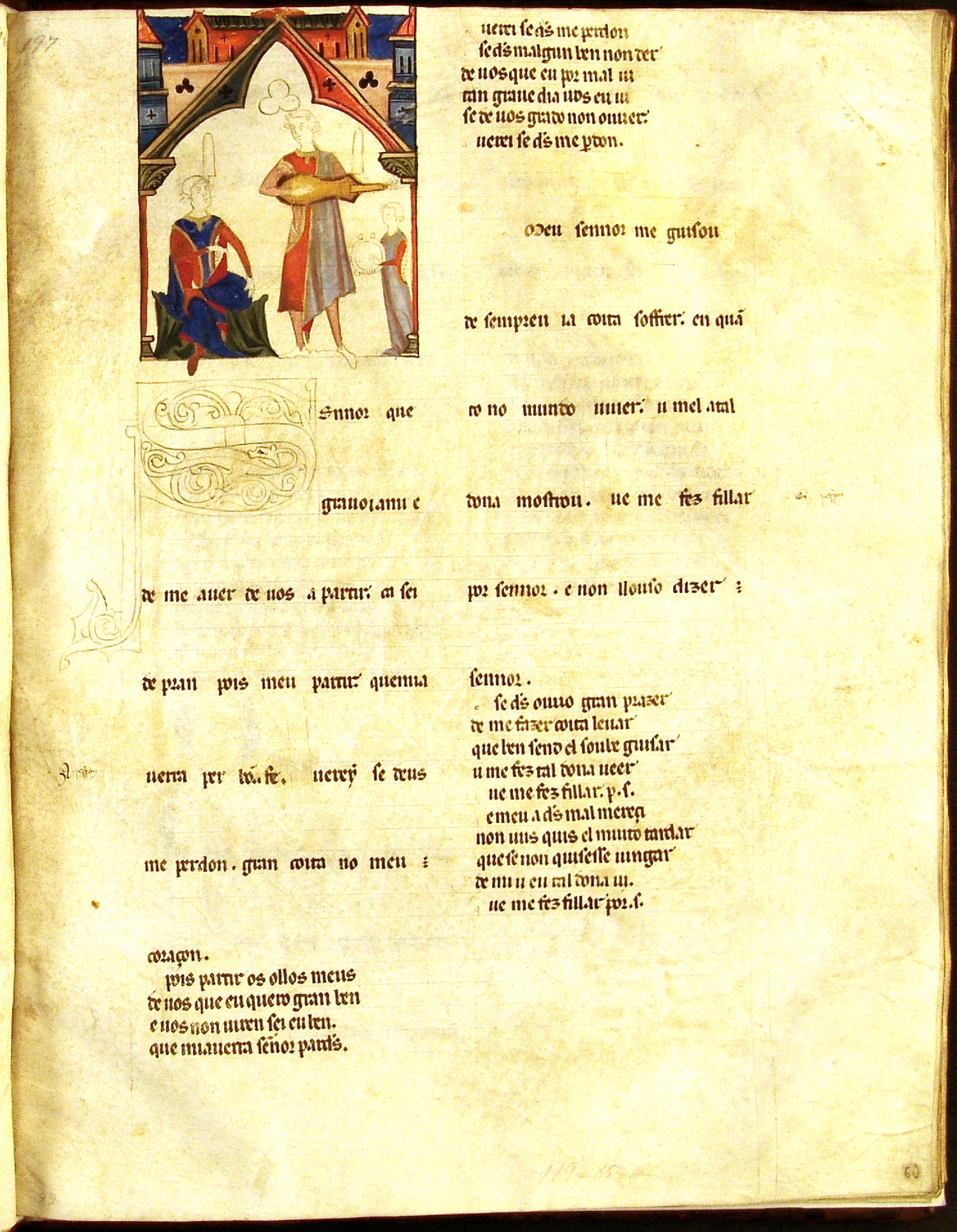 Cancioneiro da Ajuda manuscripts